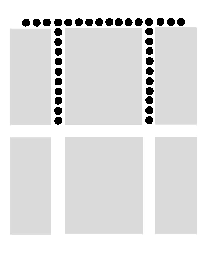 Comb perforation: 1st step.